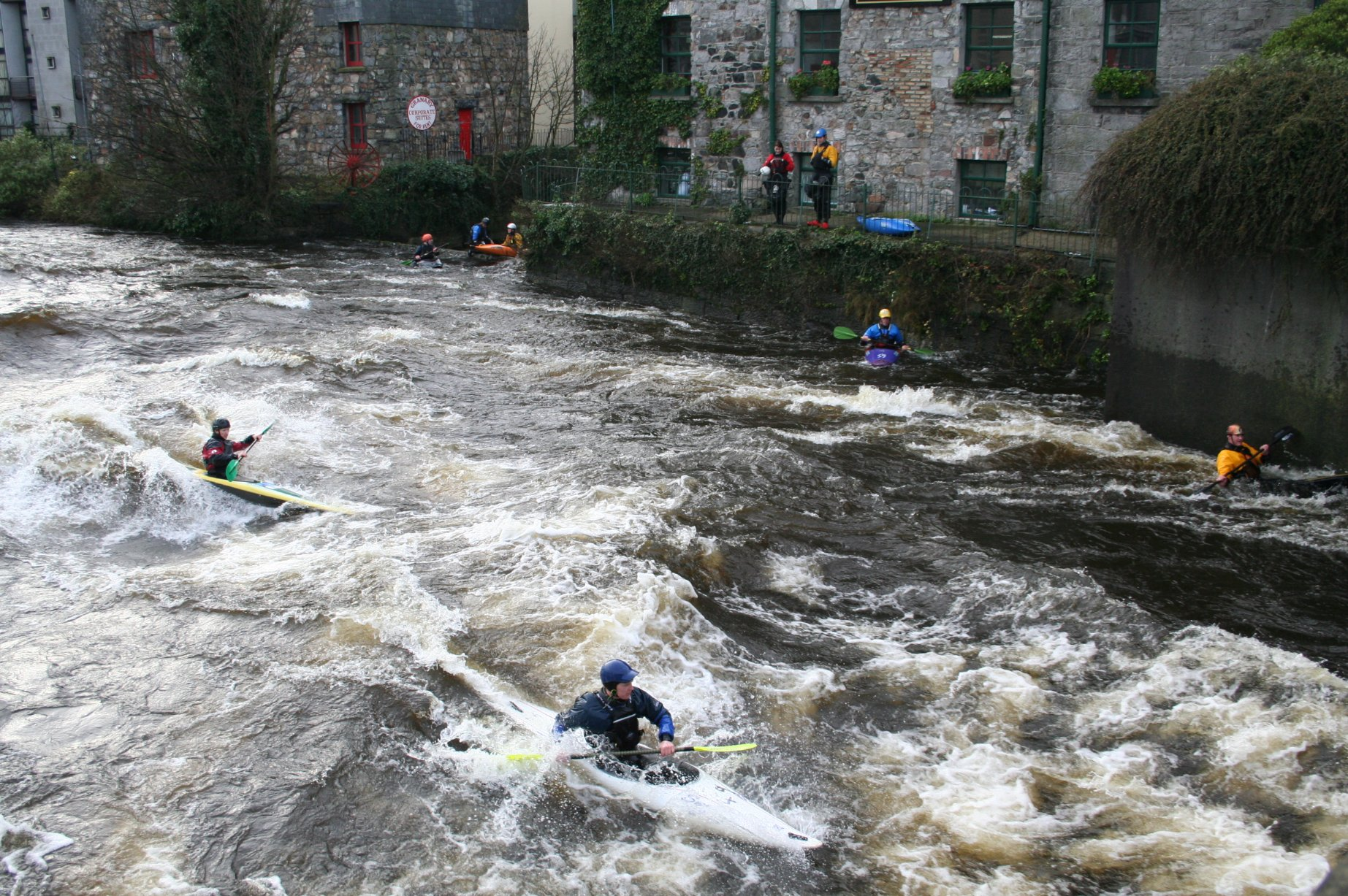 Wave surfing on the Lower Corrib, December 2006. Taken by Kristy Harrison.